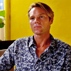 Portrait of travel writer, academic, surfer and presenter Sam Bleakley.